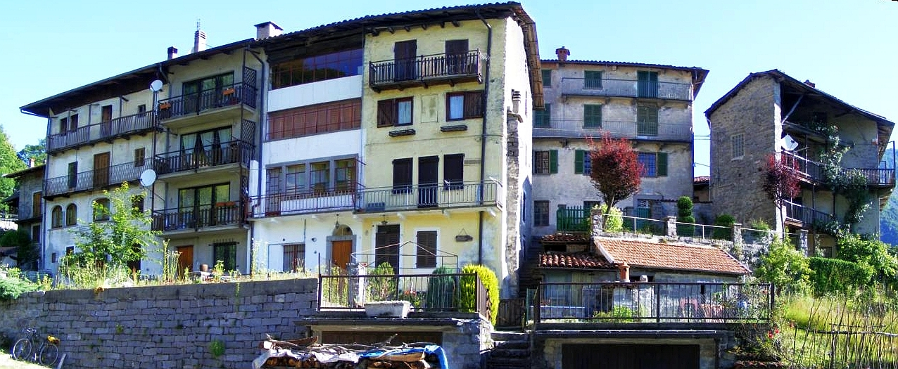 San Paolo Cervo (BI, Italy): fazione Mazzucchetti